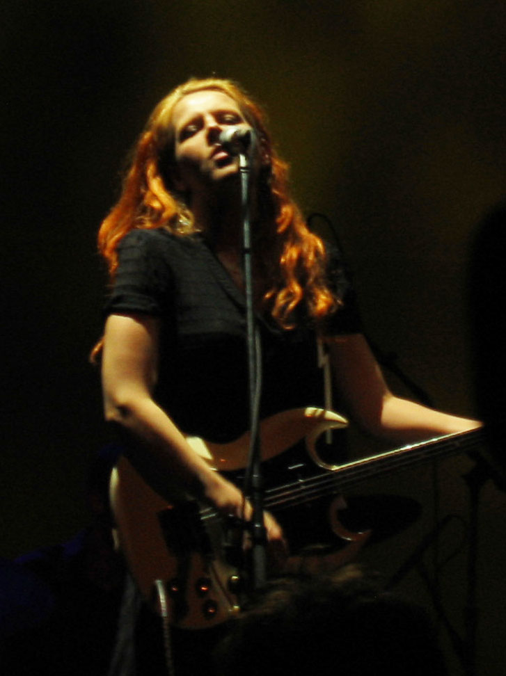 Neko Case @ Henry Fonda Theater